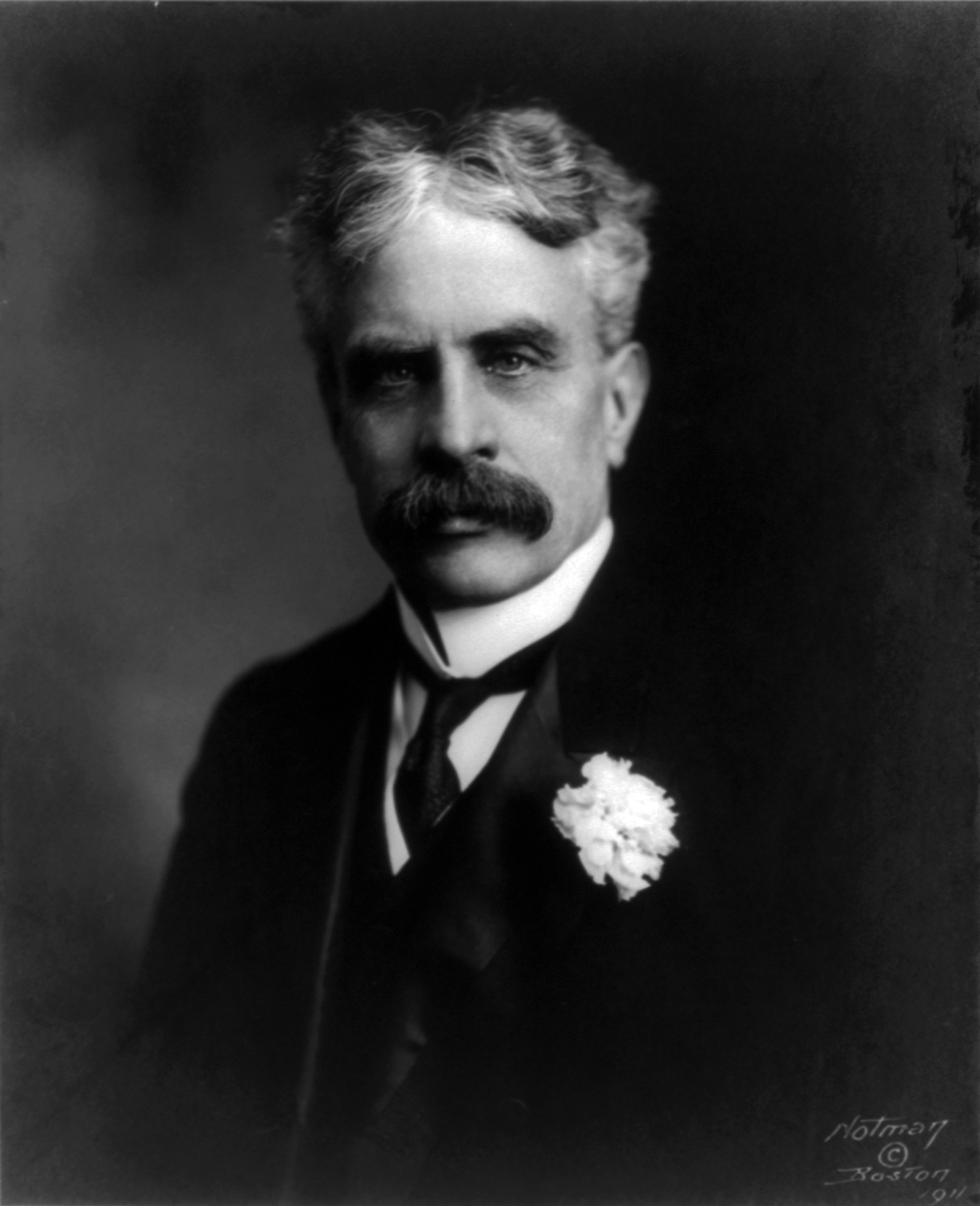 Sir Robert Borden, 8th Prime Minister of Canada